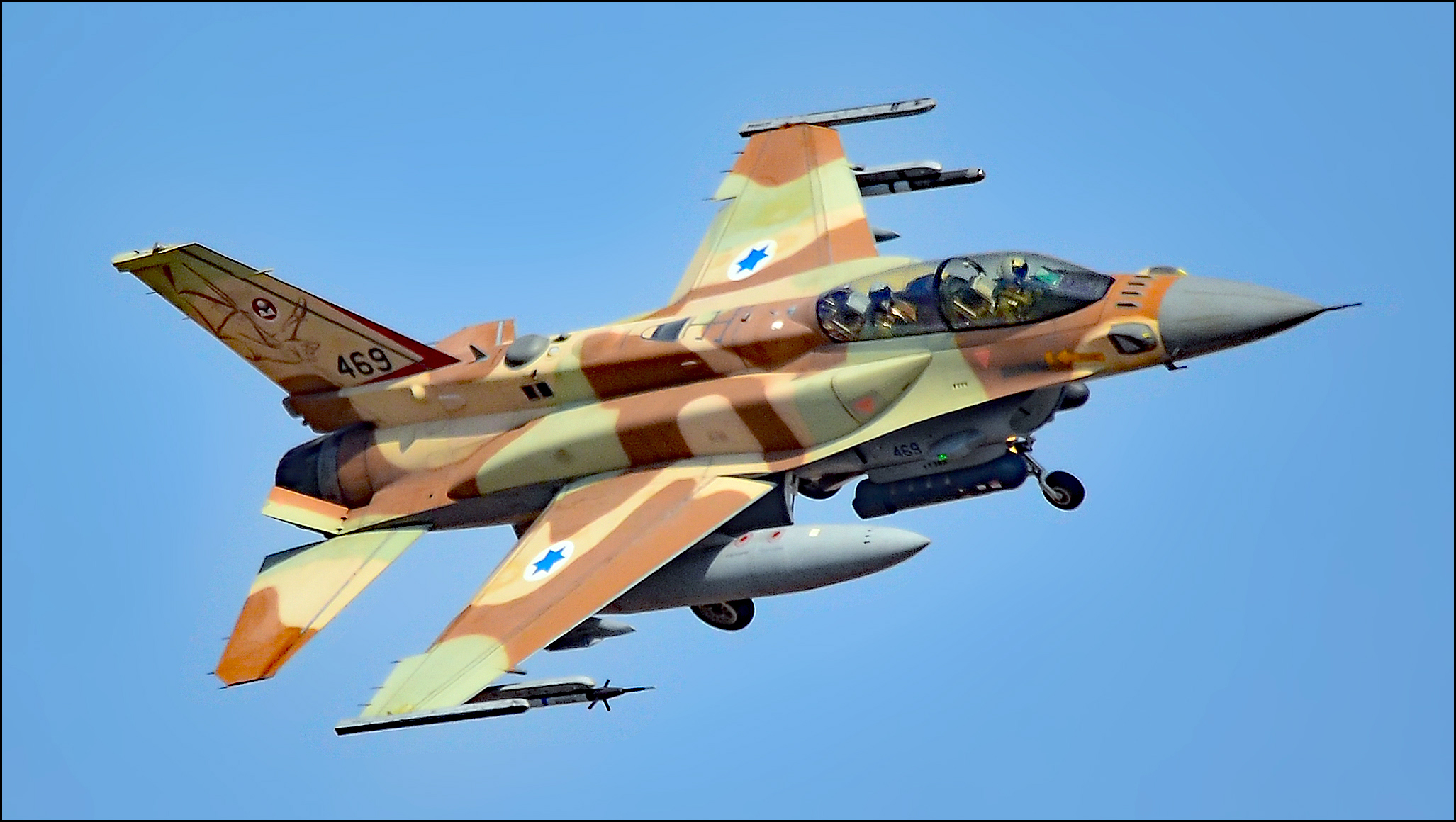 F-16I Sufa in Red Flag 16-4 Las Vegas - Nellis AFB (LSV / KLSV) TDelCoro August 24, 2016